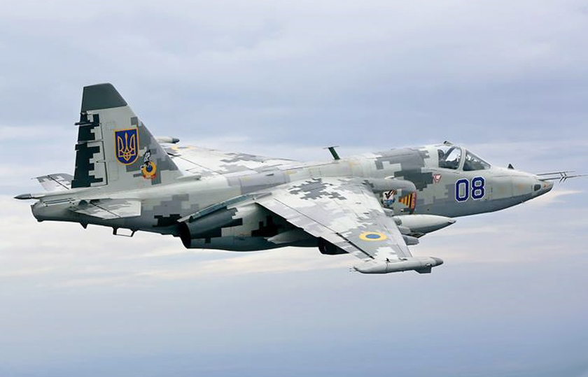 cropped version of the file